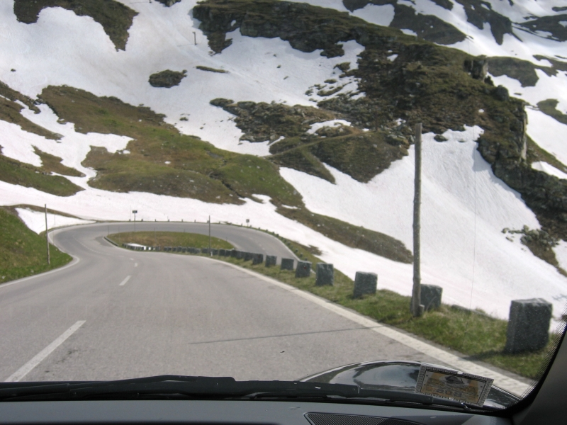 Hairpin turn on the Grossglockner Hochalpenstrasse